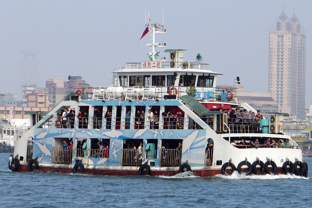 Cigu No.2 ferry of Kaohsiung City Shipping Co., Ltd.